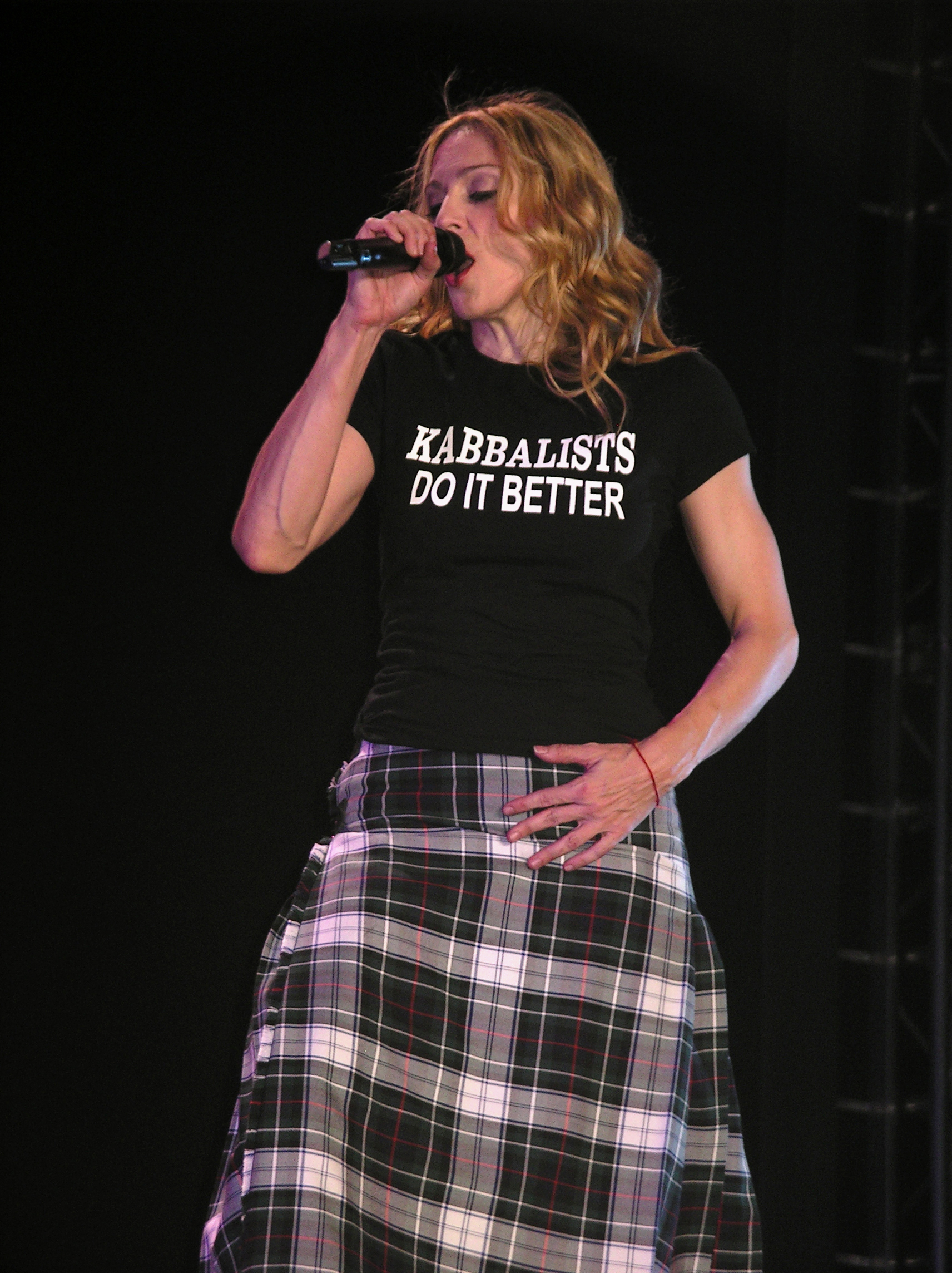 Madonna performing the song "Papa Don't Preach" during her Re-Invention World Tour concert in Paris, France, on September 2, 2004.